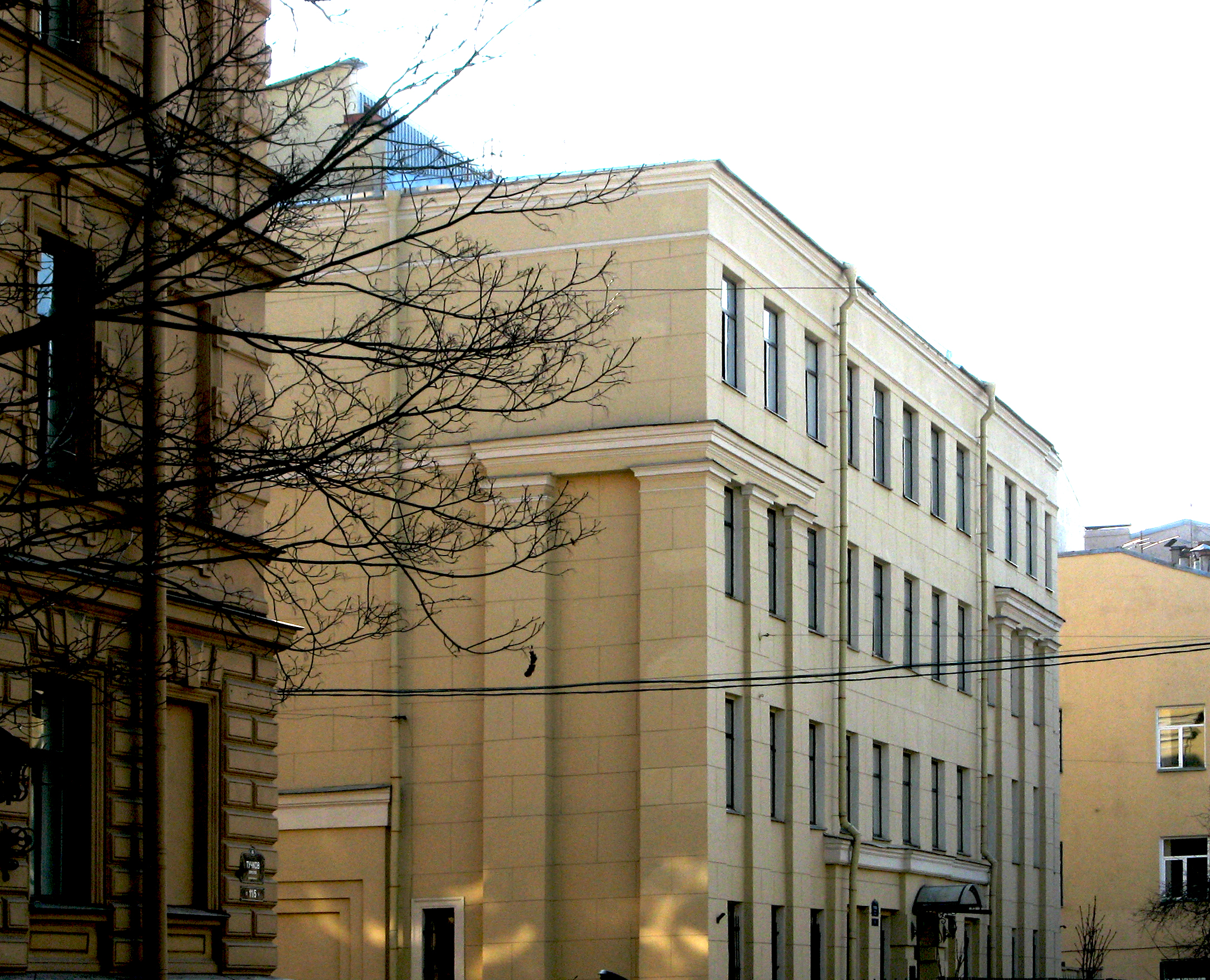 Facade view of Institute for Linguistic Studies. Tuchkov pereülok of Vasilievsky Island, building 9.